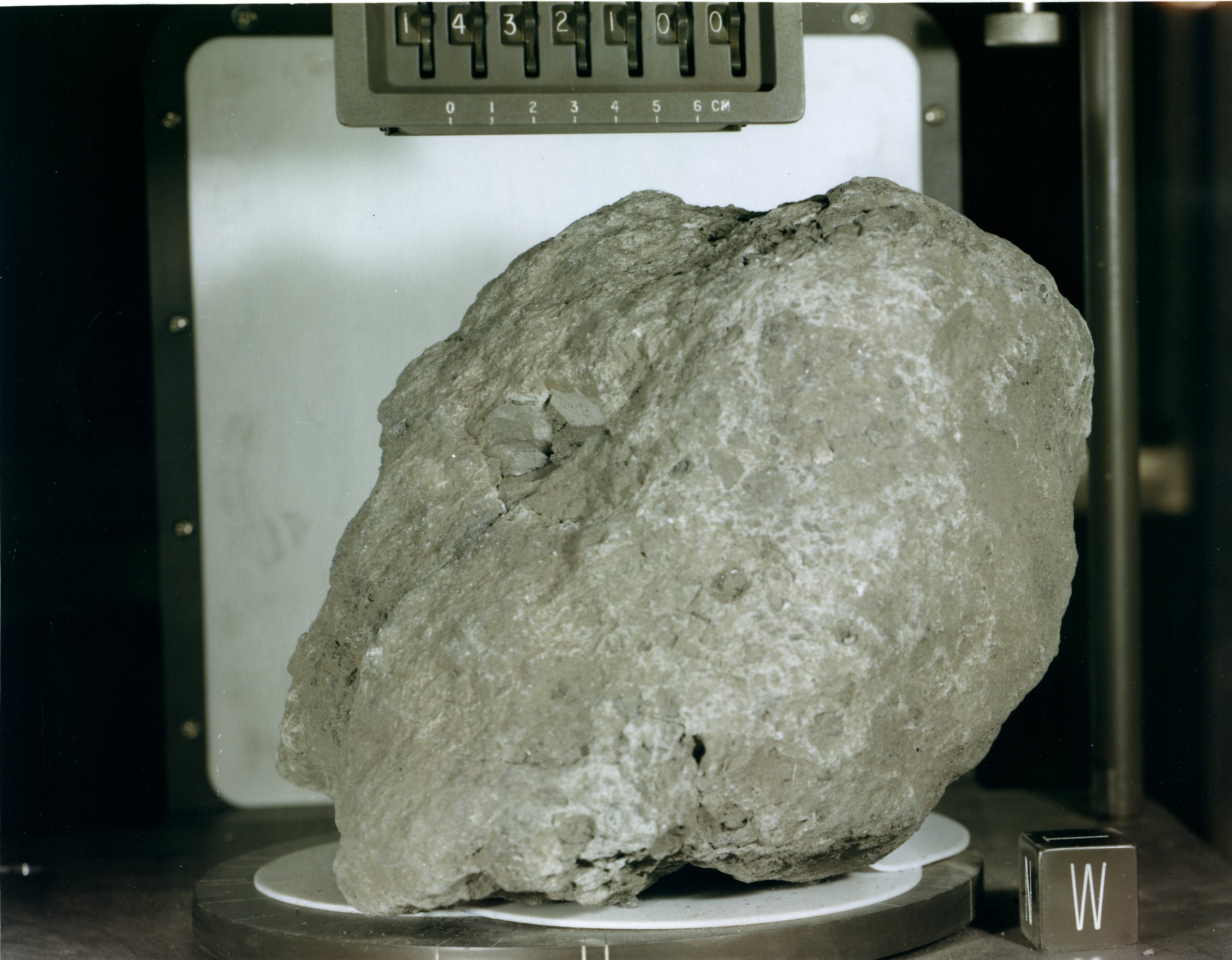 Lunar sample 14321, known as Big Bertha, collected at station C1 on the Apollo 14 mission to the moon in 1971.